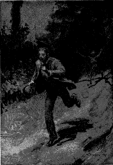 Lot 249 page 541